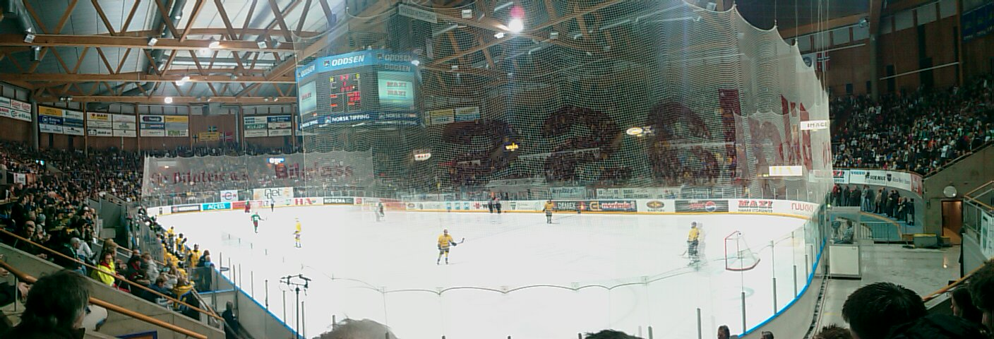 An indoor picture of the Hamar Olympic Amphitheatre, taken during game 6 of the Norwegian ice hockey finals, 2008.